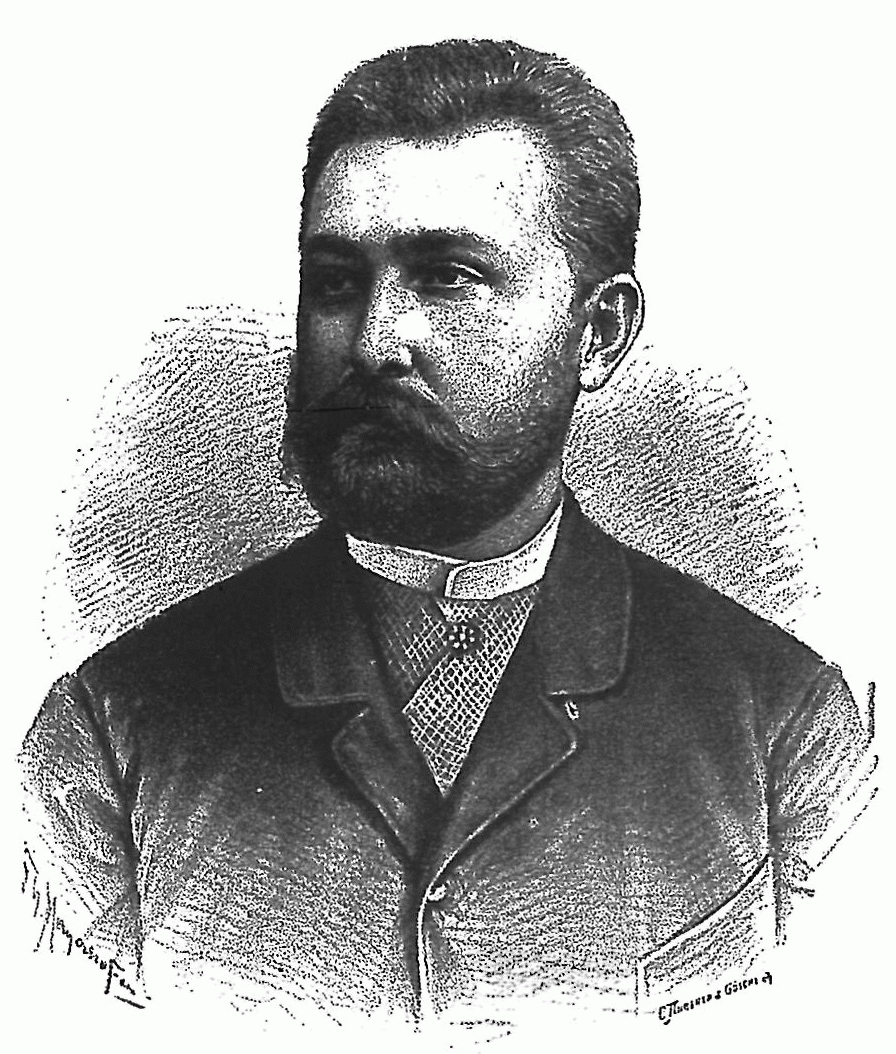 Tomislav Maretić